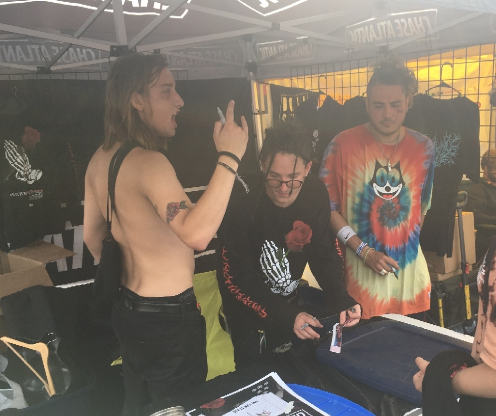 Chase Atlantic meeting fans after their set on the July 21st, Tinley Park, IL, date of Warped Tour 2018.